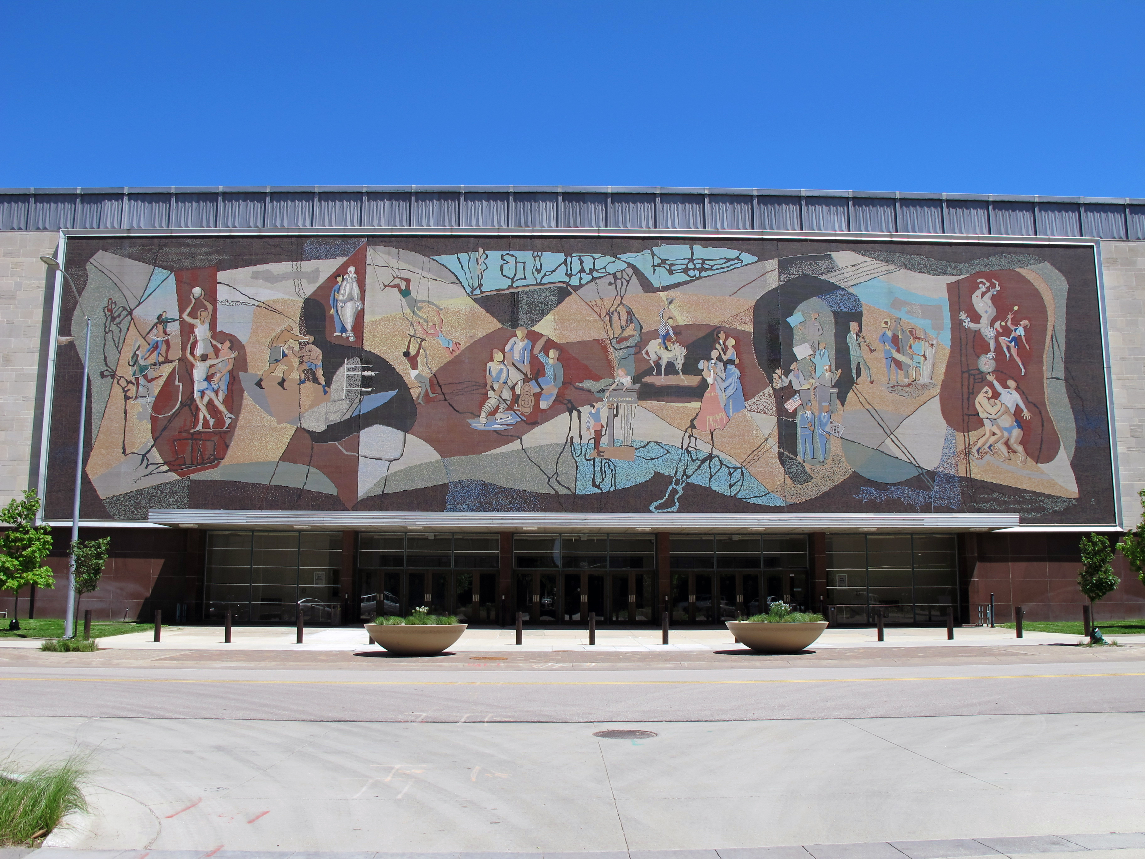 Mural and front entrance of the Pershing Center, 220 Centennial Mall South, Lincoln, Nebraska. Photo is of the west side of the building, taken from the alley to the west.